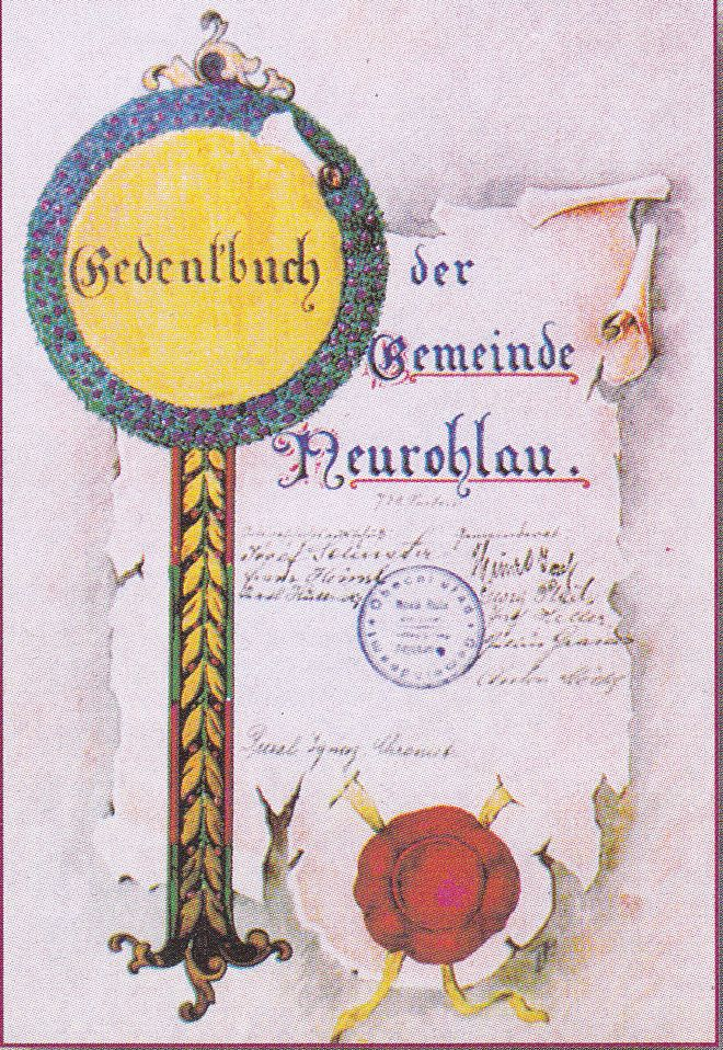 Front page of the old chronicle of Nová Role